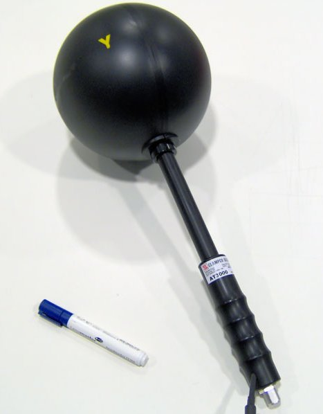 AT3000 is an isotropic antenna for EMF measurements in the range 20 MHz ÷ 3000 MHz